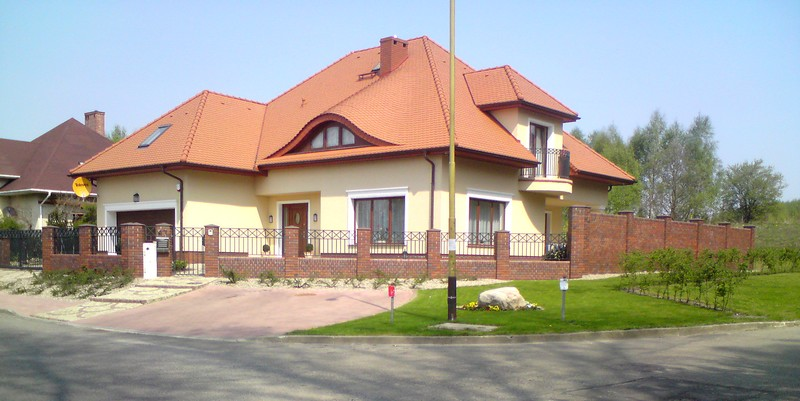 One-family house near Słowiańska street in Gryfice (Poland)